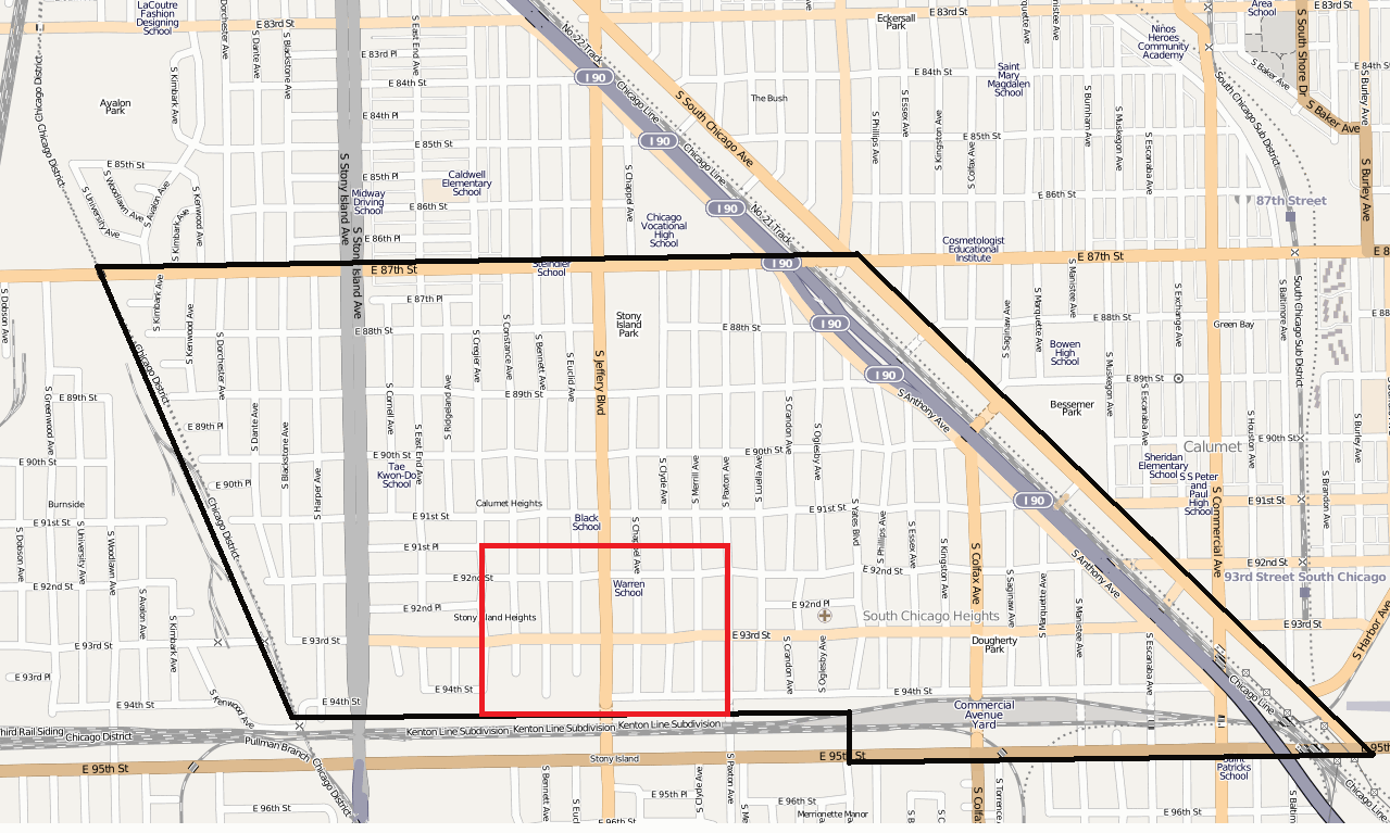 Calumet Heights, Chicago and Pill Hill, Chicago This map may be incomplete, and may contain errors. Don't rely solely on it for navigation.